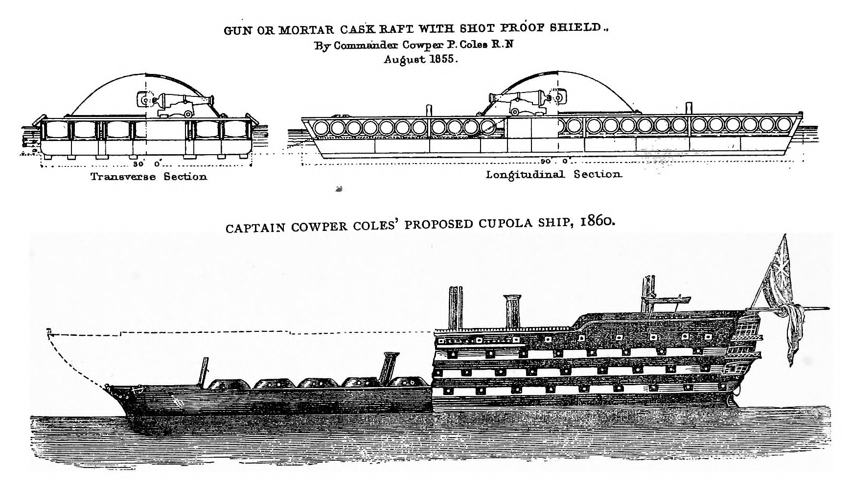 Gun or Mortar cask raft and proposed Cupola ship Plate from Eardley-Wilmot: The Development of Navies Please do not rotate this copy